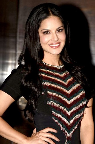 Sunny Leone promotes ‘Raees’